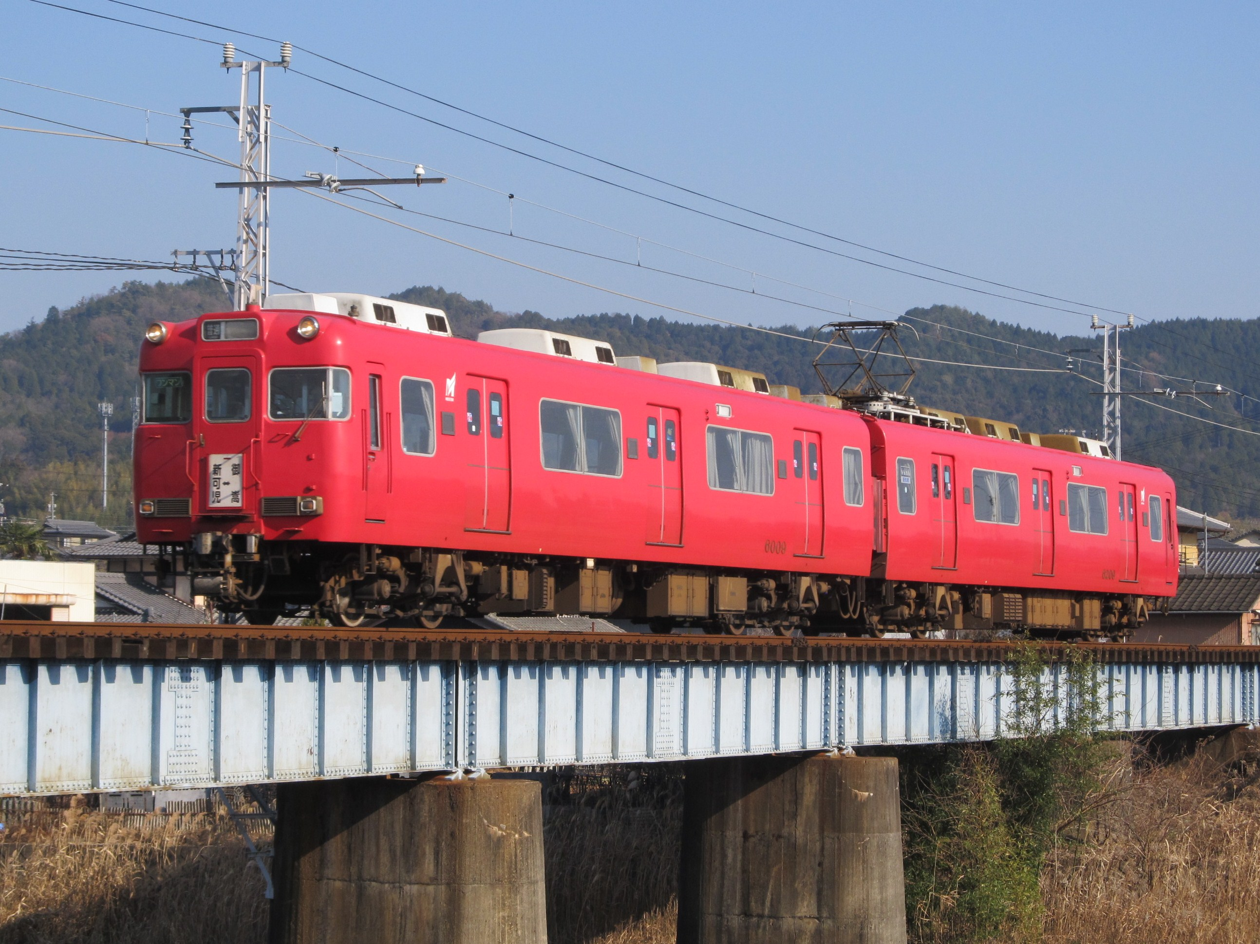 Meitetsu 6000 series. Bound for Shin Kani.